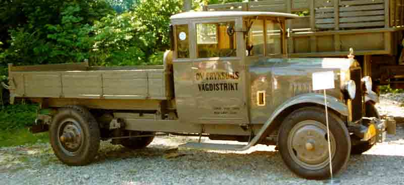 Scania-Vabis 3256 Truck 1928